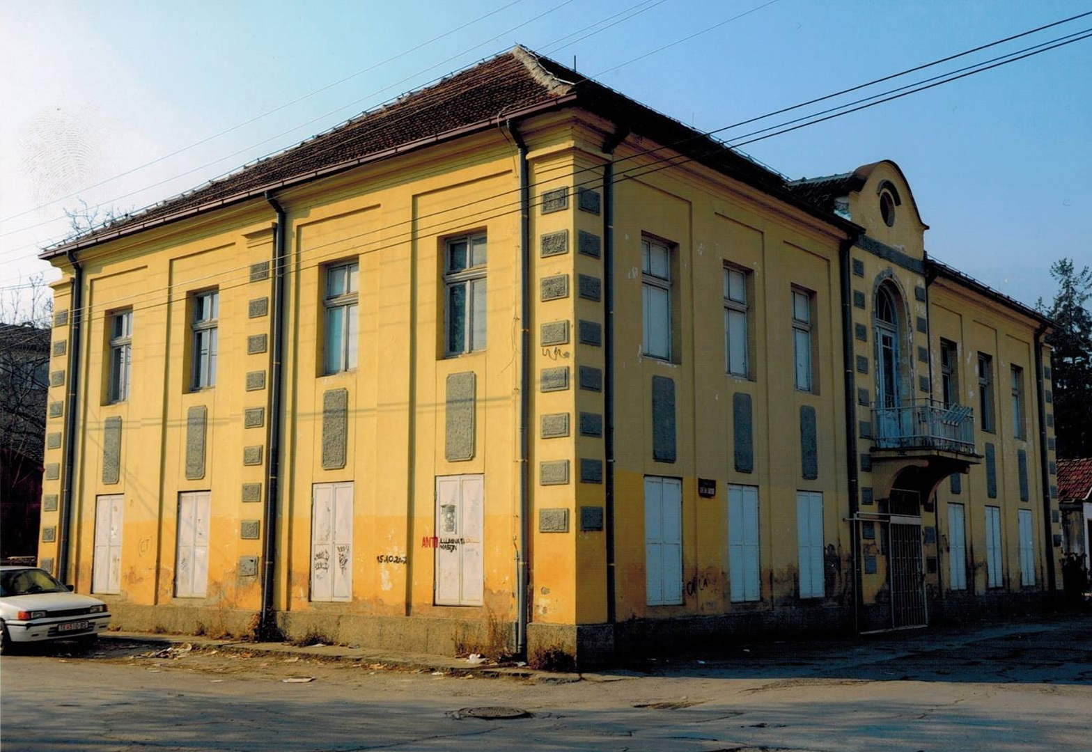 The building of the archives of Tetovo, a department of the State Archive of the Republic of Macedonia. This media file is produced by Wikipedian in Residence in Category:Wikipedian in Residence at DARM in 2016.